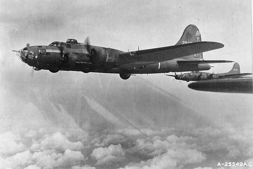 "Delta Rebel No. 2" Boeing B-17F-30-BO Flying Fortress s/n 42-5077 323rd BS, 91st BG, 8th AF This plane was shot down by fighters on the August 12,1943 mission to Gelsenkirchen,Germany. She was damaged first by Hauptmann Naumann of JG 26/6, then shot down by Obfw. Adolf Glunz of JG 26/4 in a Fw 190A-5 over Brunninghausen,Germany. 4 of the crew were KIA, 6 became POW's (MACR 261).